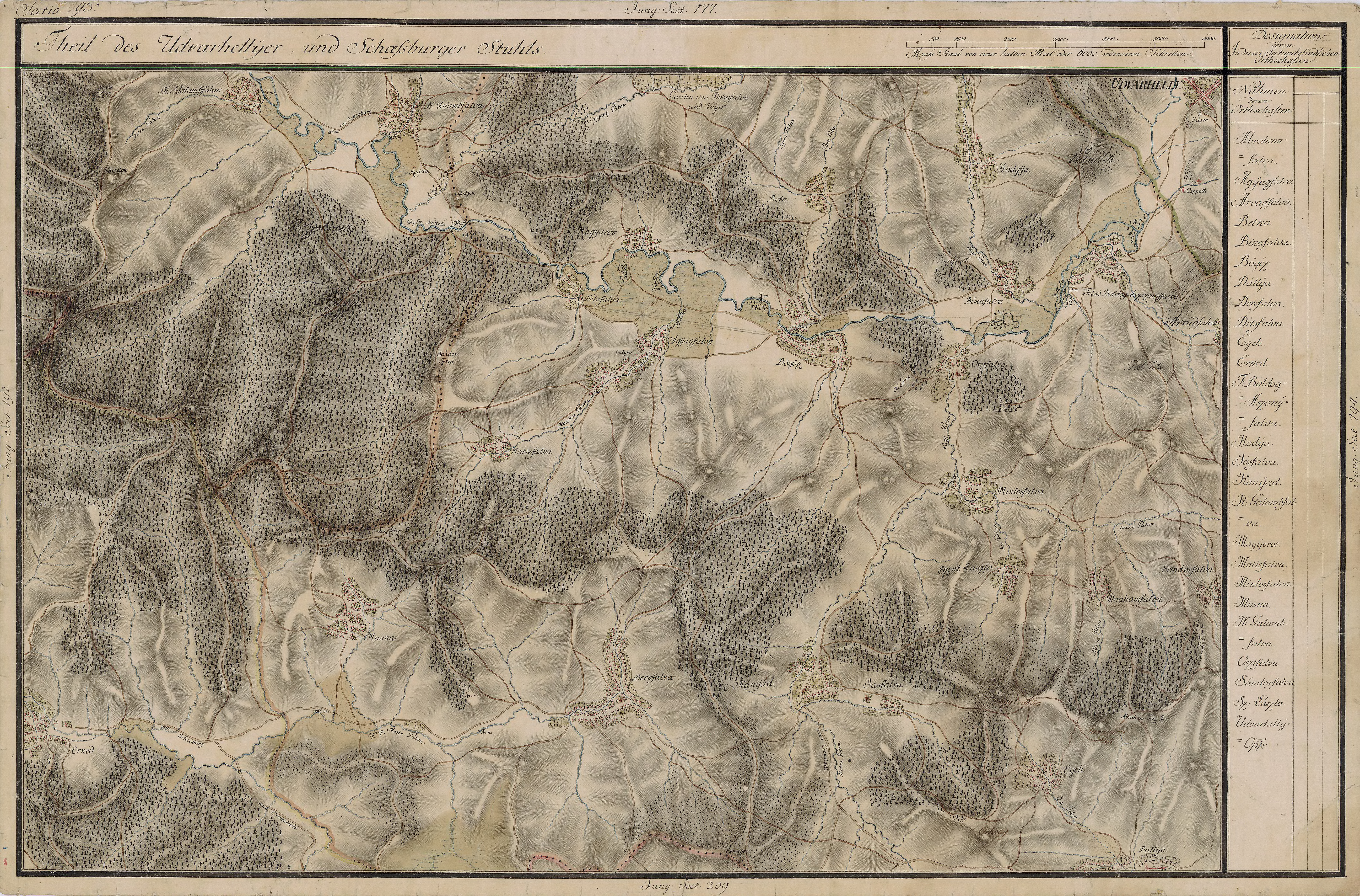 Grand Duchy of Transylvania, 1769-1773. Josephinische Landaufnahme pg.193